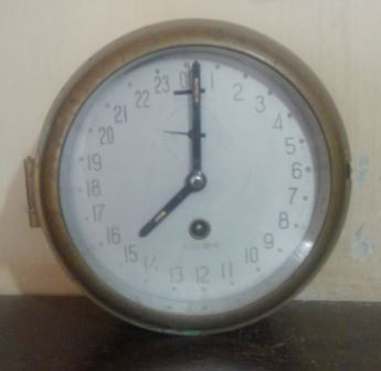 A 24 hour clock in Hoods Tower Museum